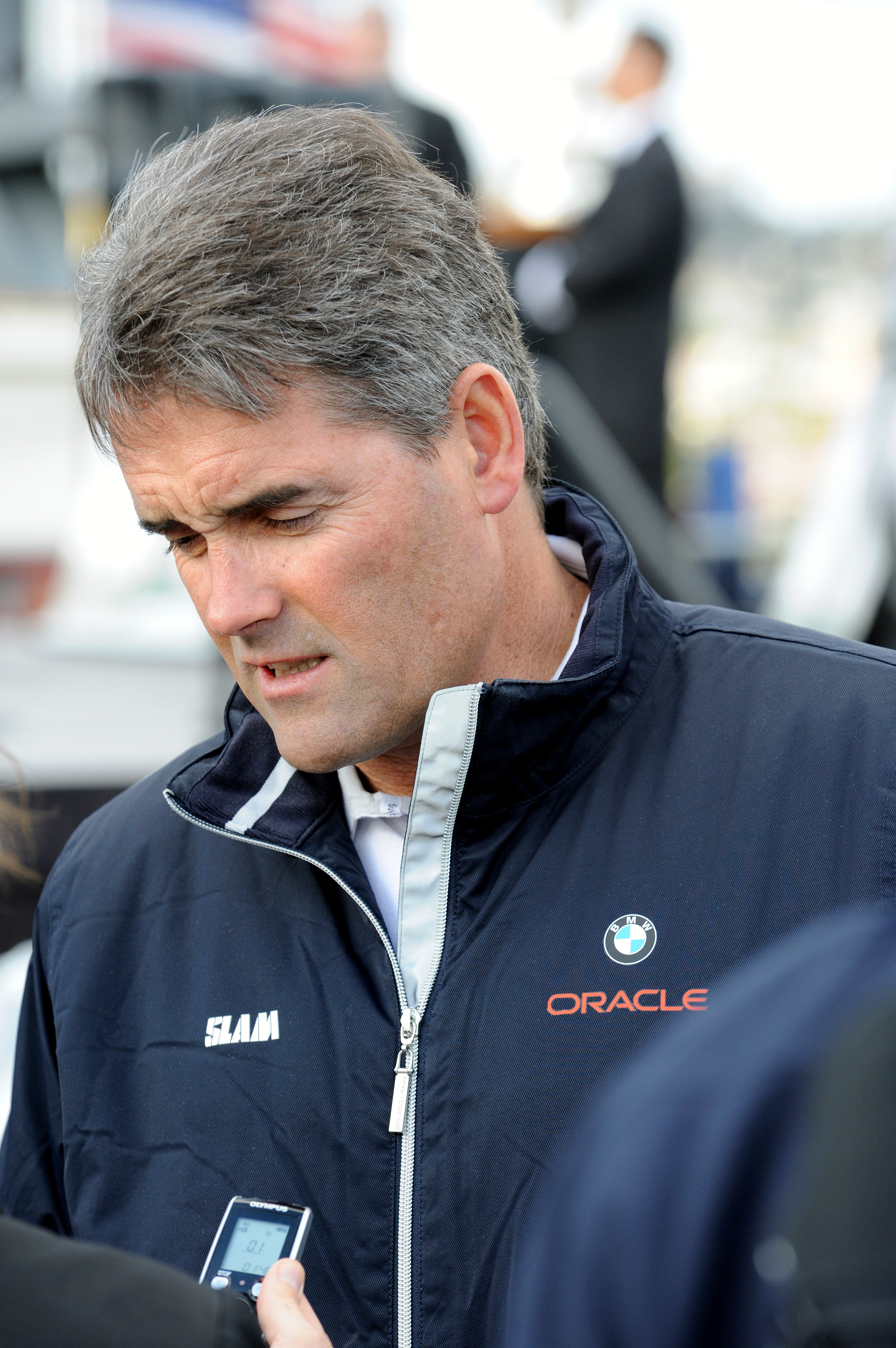 BMW Oracle Racing Team CEO Russell Coutts aboard the Midway event. (Photo Courtesy: Colin McDonald)